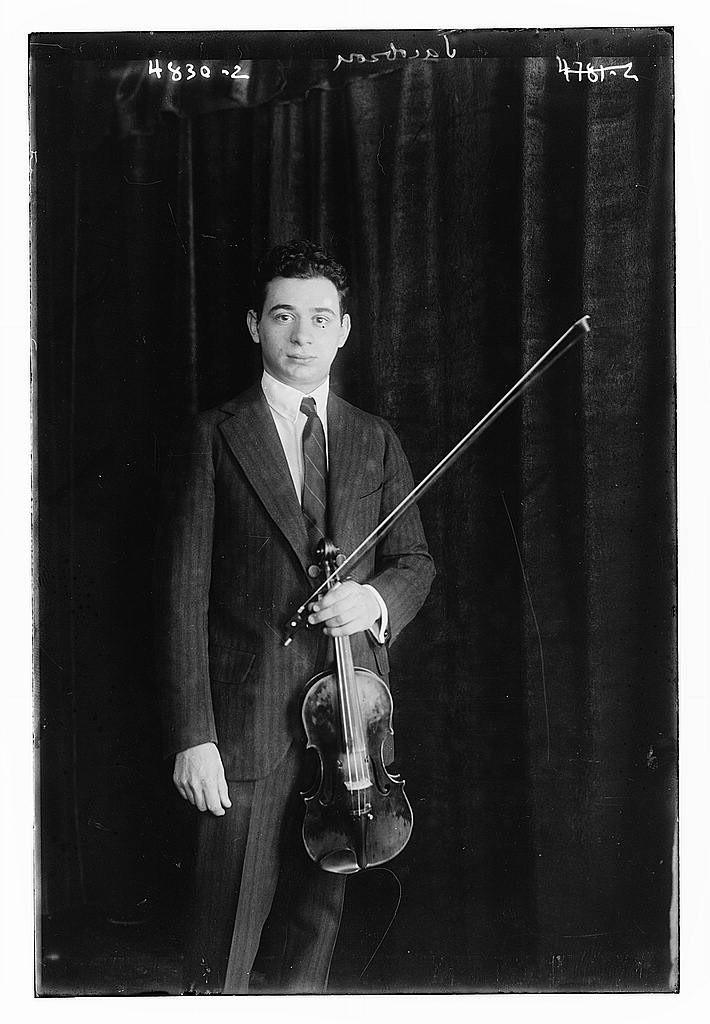 Sascha Jacobsen in 1919 with violin